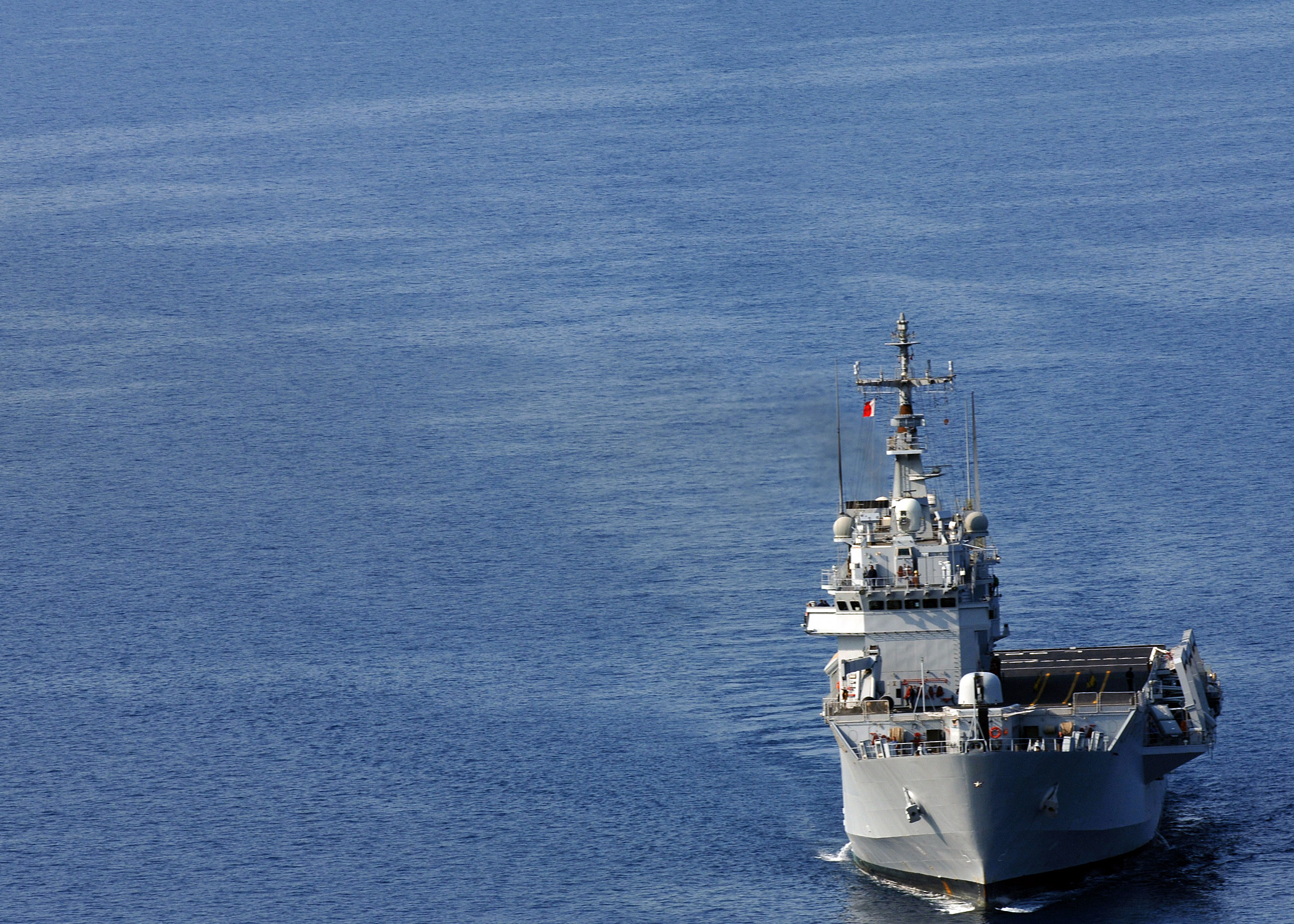 Taranto, Italy (June 24, 2005) – The Italian exercise command ship ITS San Giusto sails during the North Atlantic Treaty Organization (NATO) submarine escape and rescue exercise Sorbet Royal 2005. Divers from various nations will work together to rescue submariners during the exercise in the Mediterranean. Twenty-seven participating nations, including 14 NATO nations will test their capabilities and interoperability. Four submarines with up to 52 crewmembers aboard will be placed on the bottom of the ocean, while rescue forces with rescue vehicles and systems work together to solve complex disaster rescue problems. U.S. Navy photo by Chief Journalist Dave Fliesen (RELEASED)